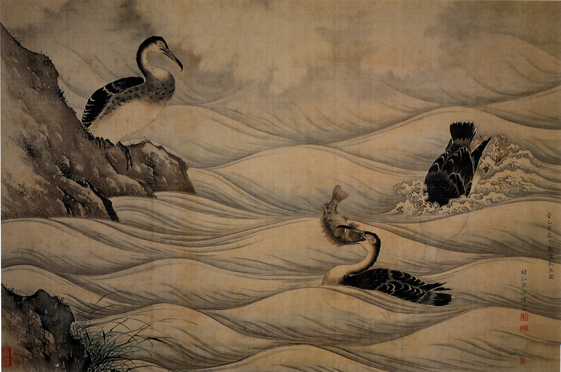 Yūhi_Cormorants_catching_Fish_A_hanging_scroll_Color_on_silk_Middle_Edo_period_dated_1755_The_Tokugawa_Art_Museum